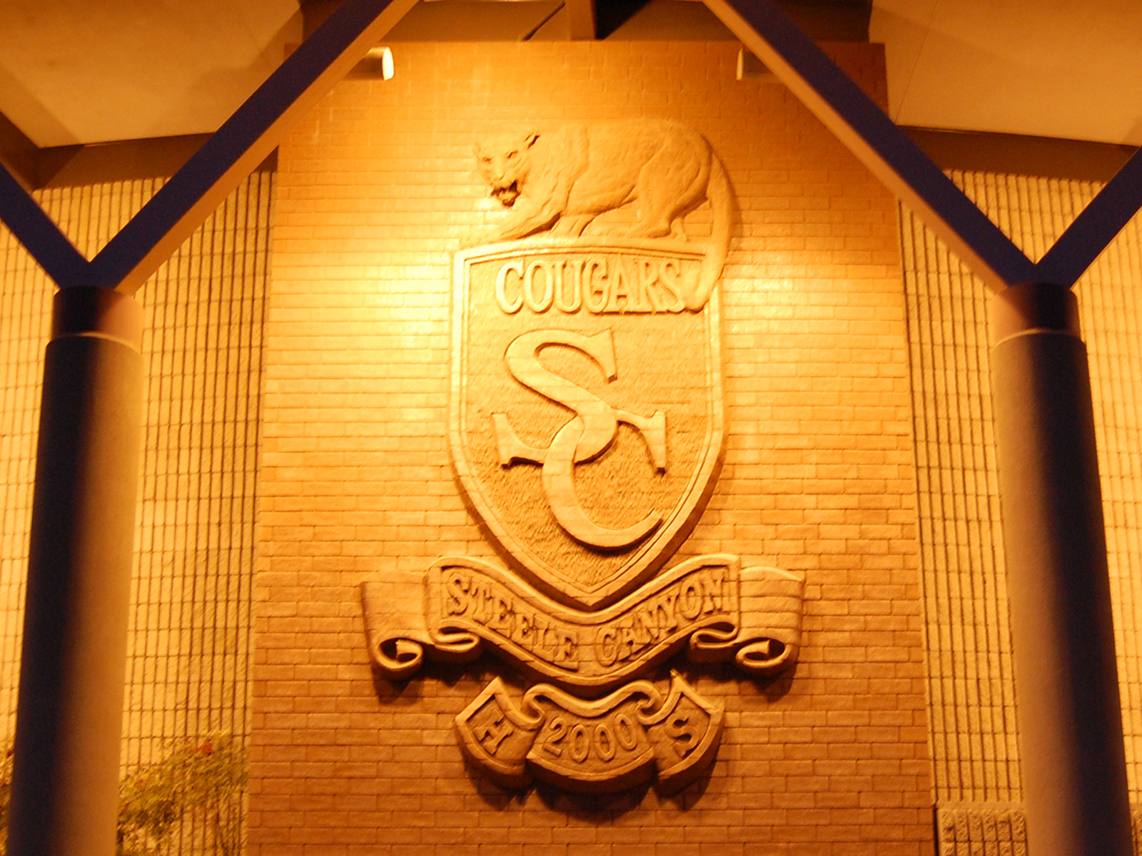 The logo that can be see at the entry of the campus.